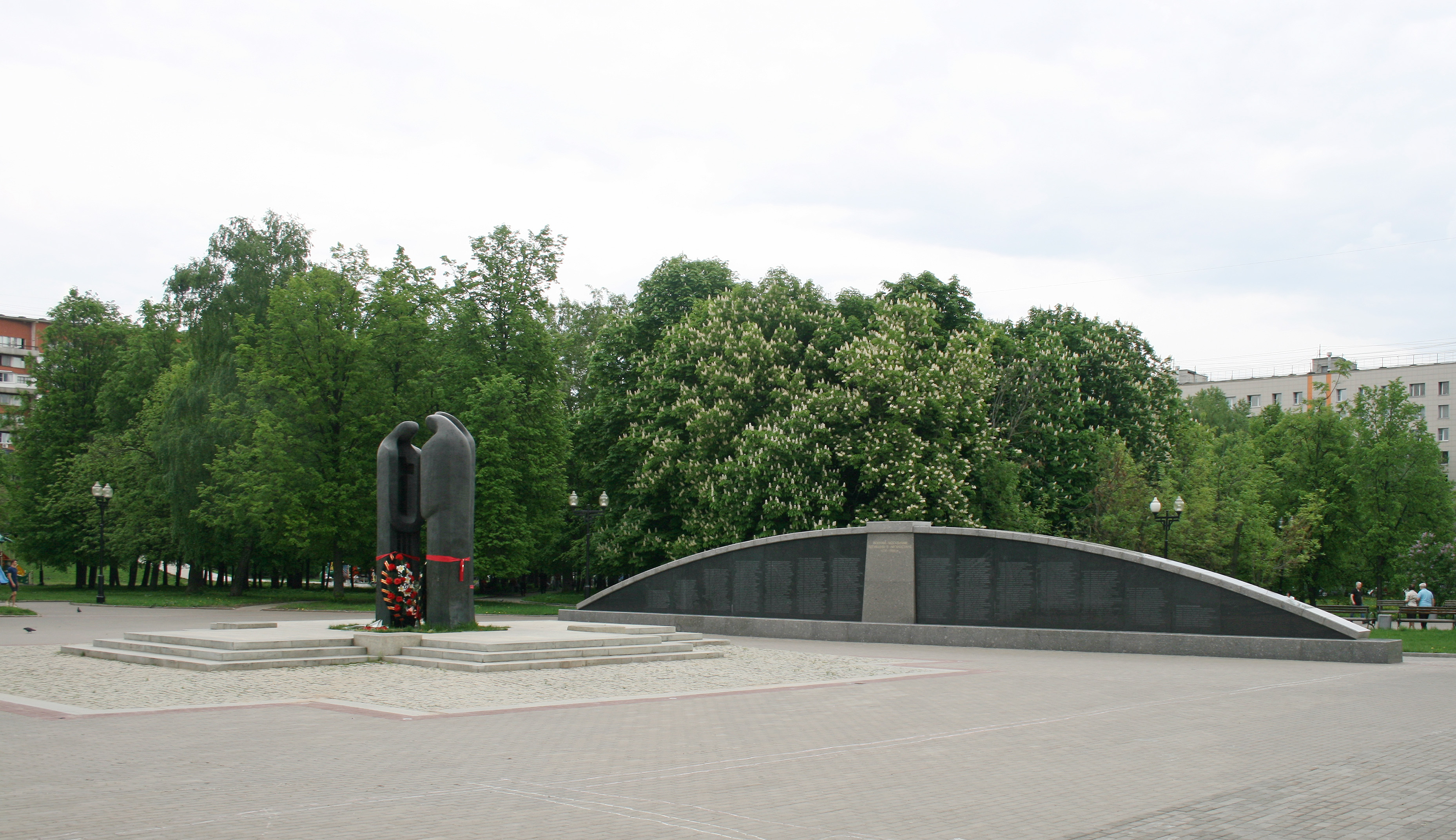 Monument to those who have remained unburied (Mourning Mothers).